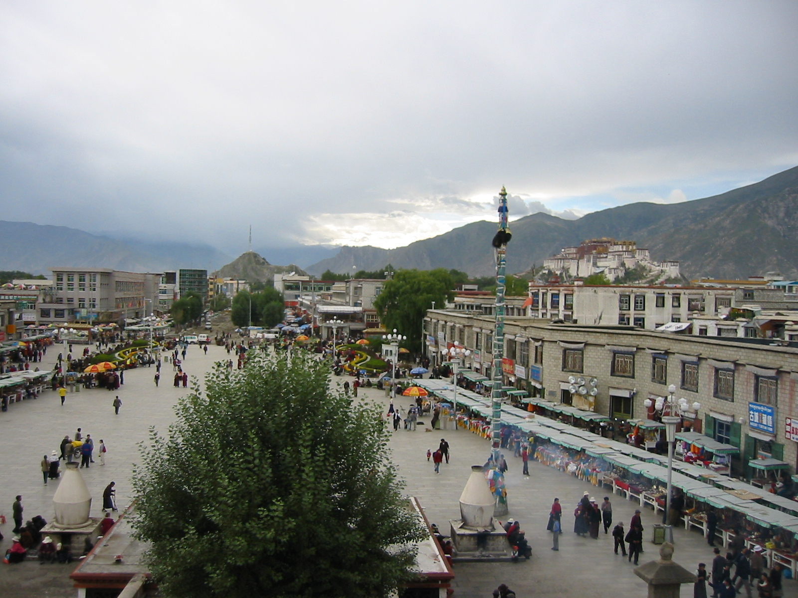 From the roof of Jokhang, with Potala Palace at the background.